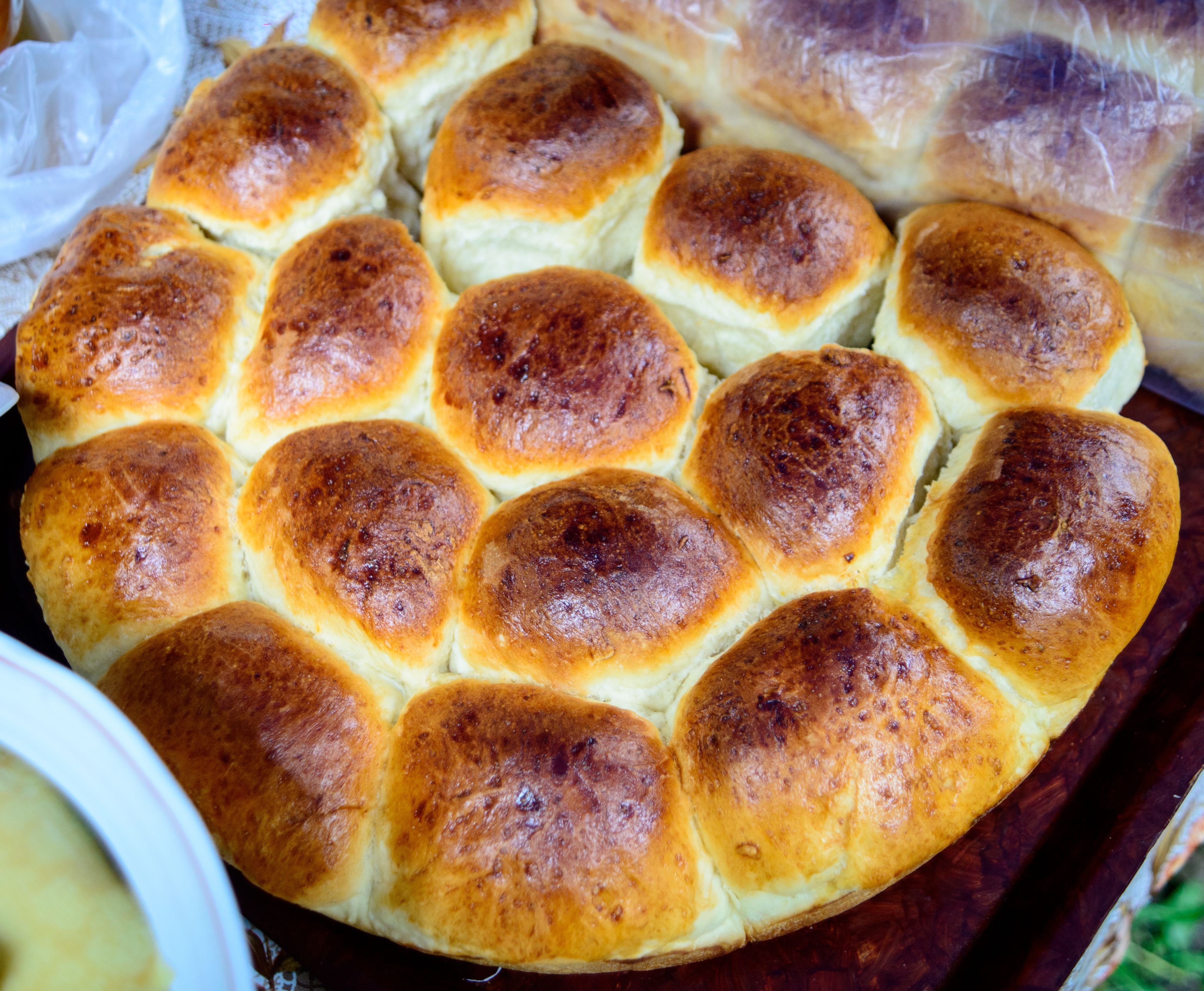 Pies. Wikiexpedition to Fest "Borschyk in clay pot". Poltava region